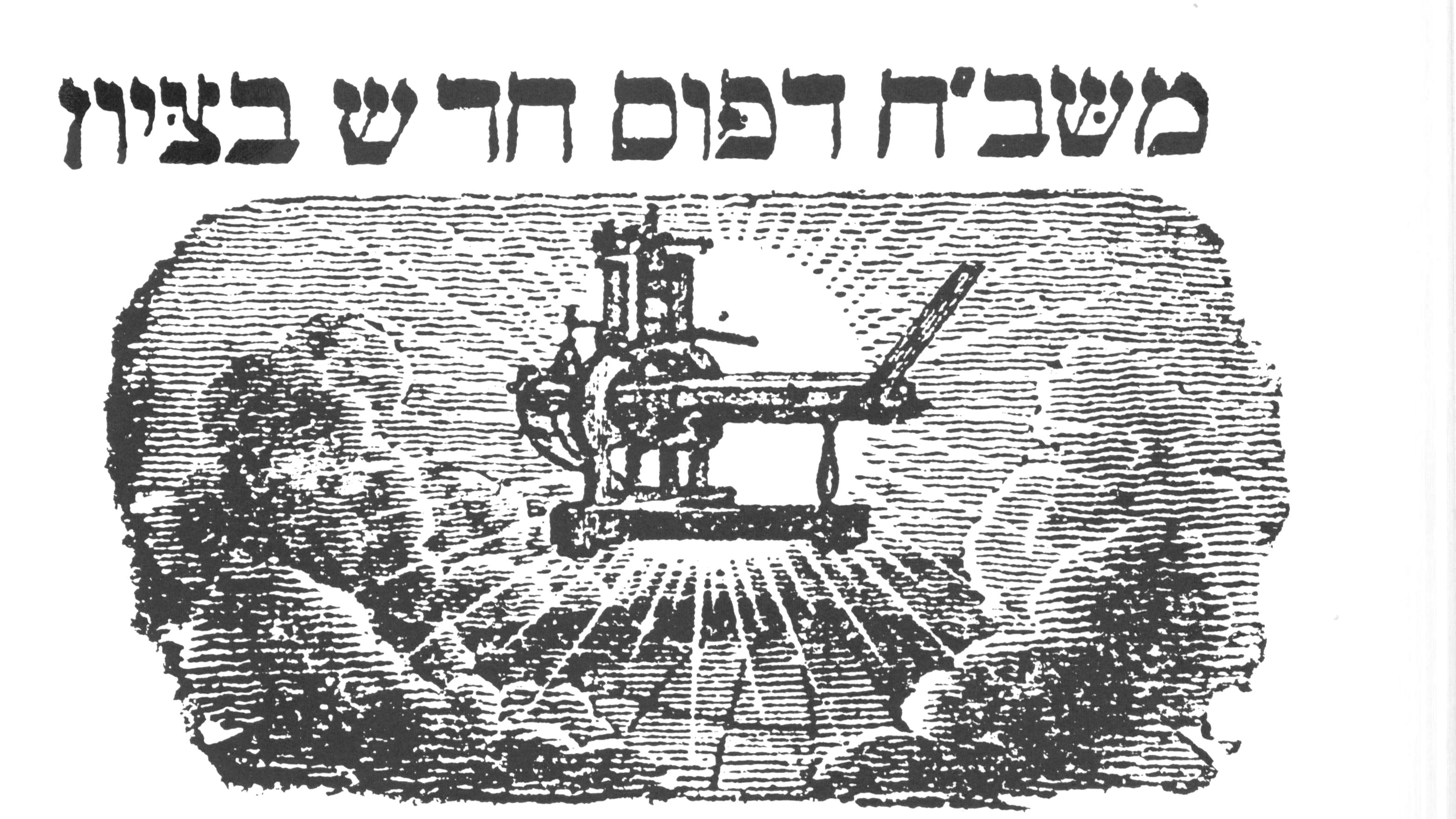 הדפס של מכבש הדפוס של דפוס סלומון